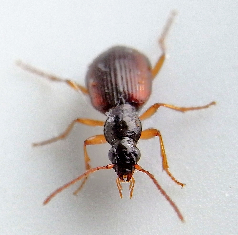 Oxypselaphus obscurus from Hungary near Mezötur at 2010-05-30Ricoh R8